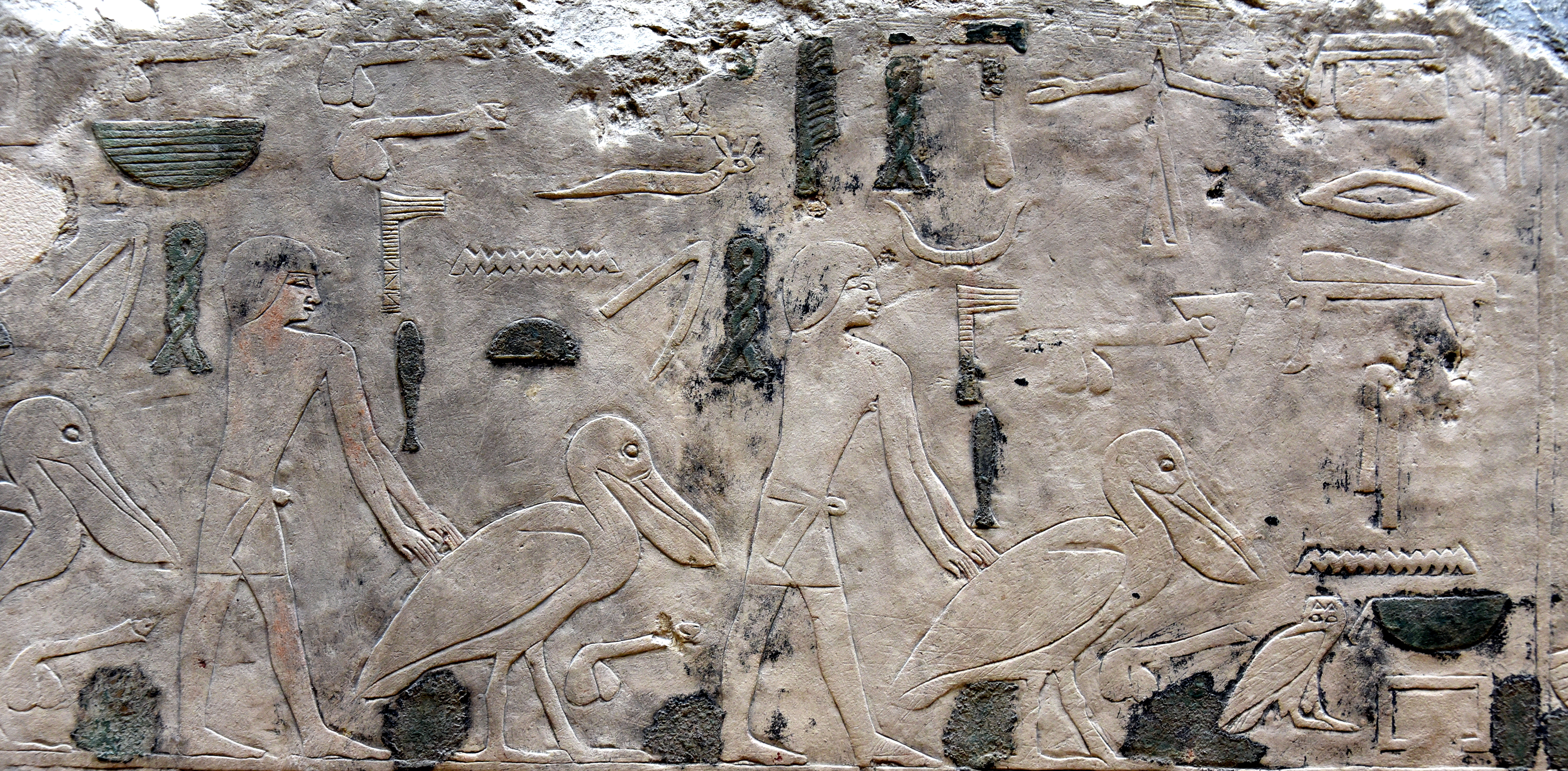 Breeding pelicans. Limestone, painted. Wall fragment from the Sun Temple of Nyuserre Ini at Abu Gorab, Egypt. Old Kingdom, 5th Dynasty, c. 2430 BCE. Neues Museum, Berlin, Germany. ÄM 20037.